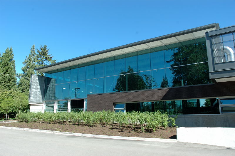 Looking north at Coquitlam's Chimo Aquatic and Fitness Centre